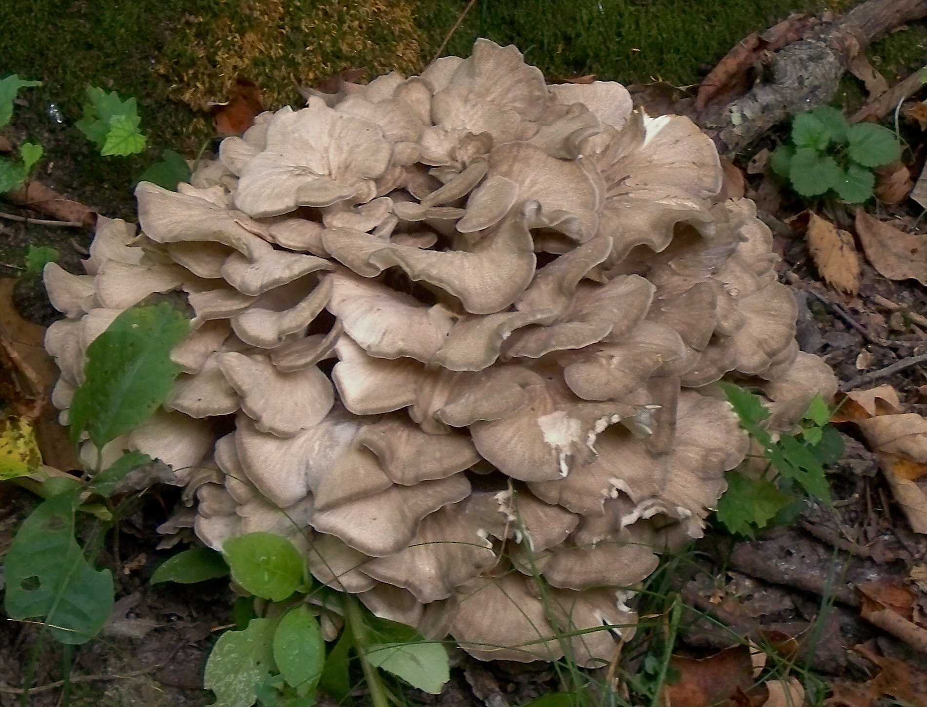 Grifola frondosa (Dicks.) Gray Location: Cliff Cave Park, Arnold, Missouri, USA For more information about this, see the observation page at Mushroom Observer.